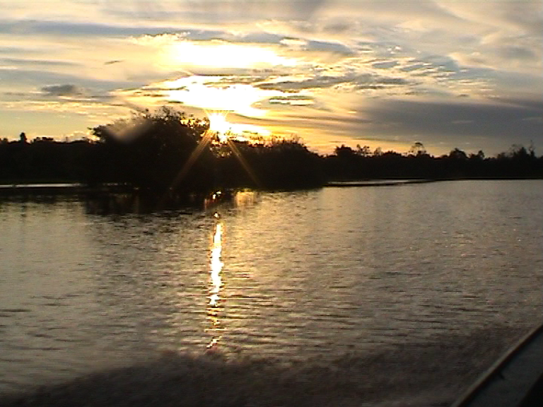 Rio negro